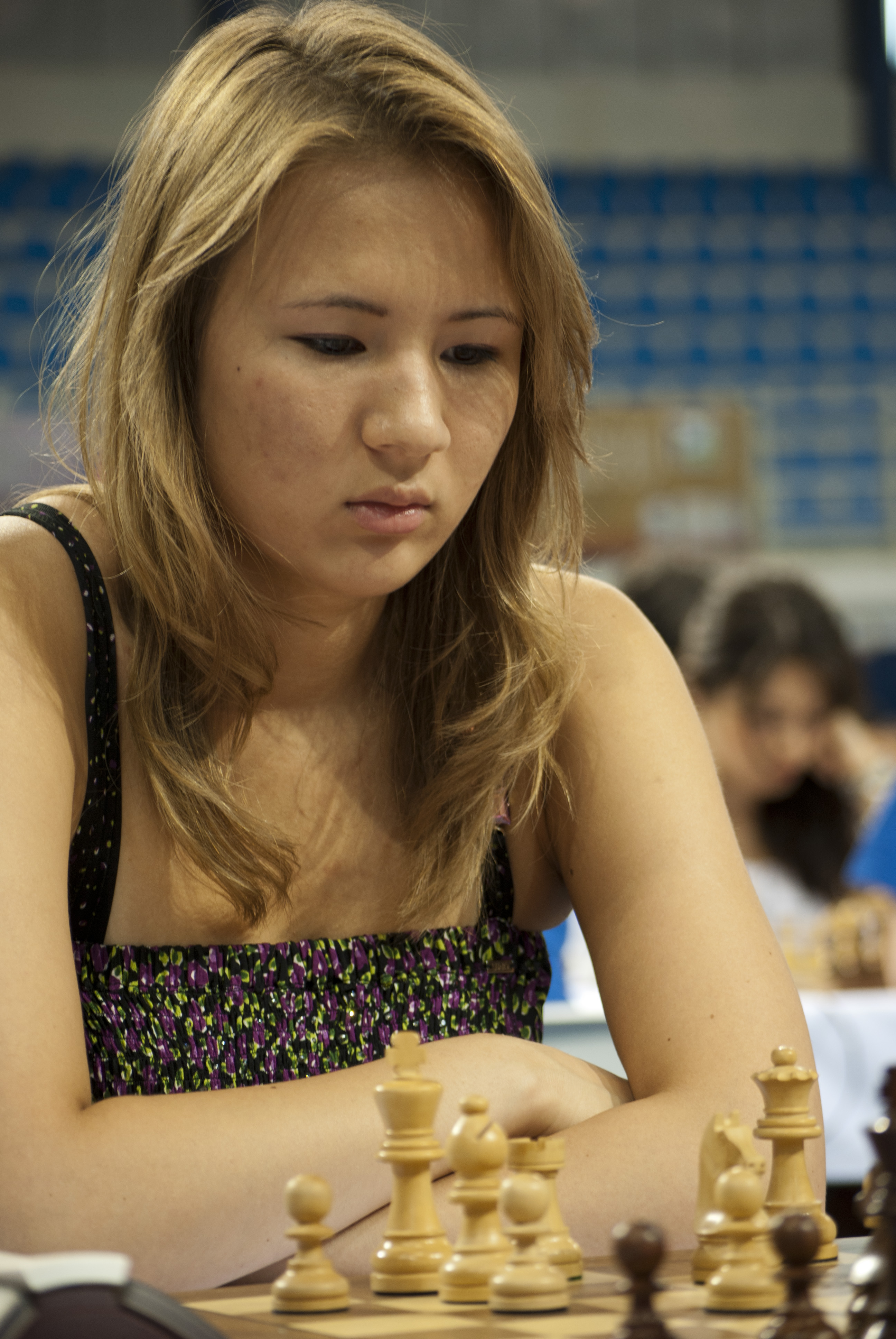 Lisa Schut, Athens 2010. .